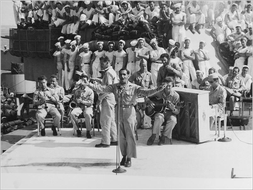 U.S. gov't press photo of Irving Berlin aboard the USS Arkansas, July 25, 1944.